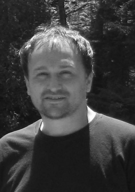 Author Joseph D. Haske, picture taken in 2014 in Michigan